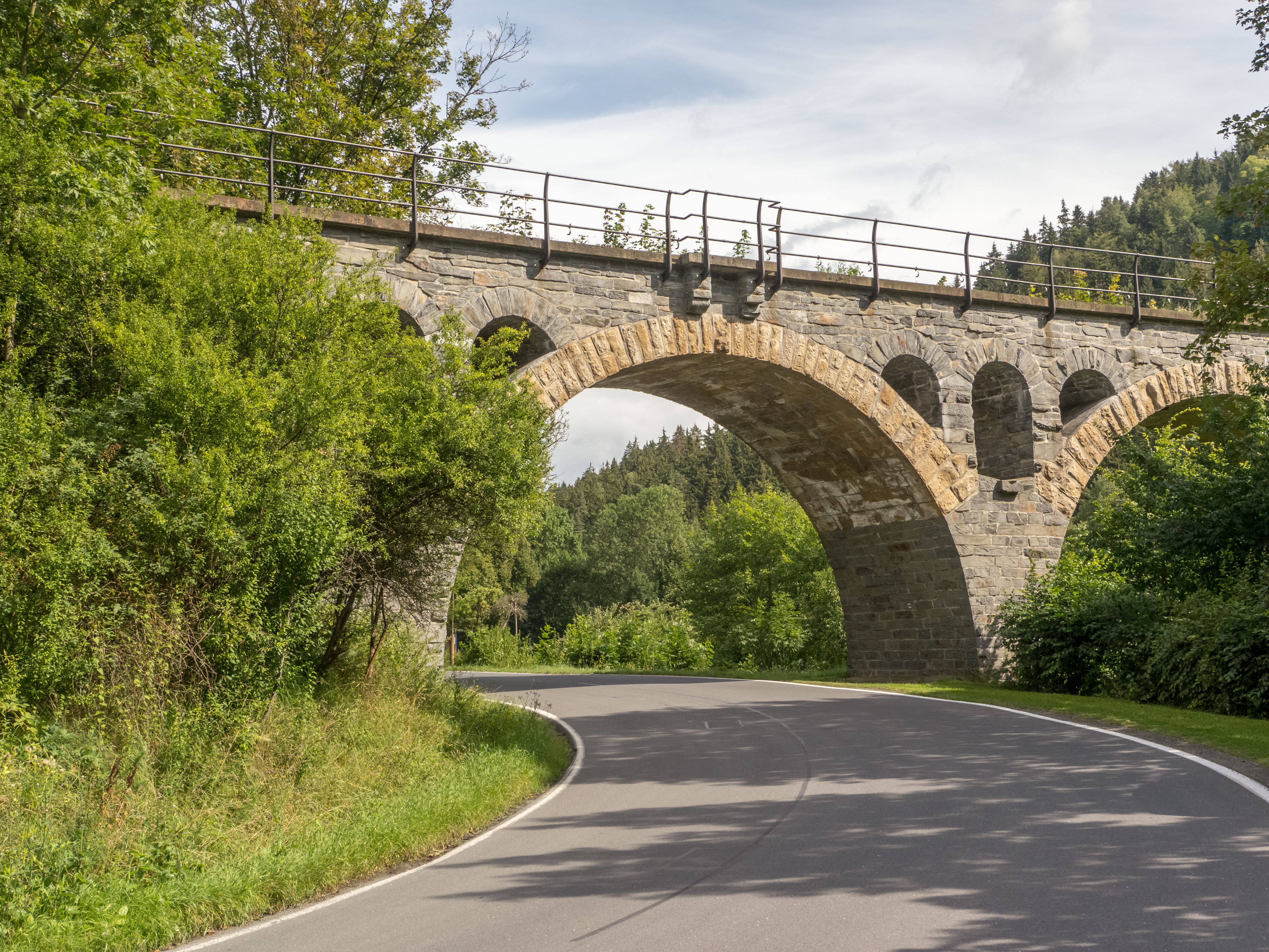 Railway viaduct across the river Saale in Ziegenrück in Thuringia